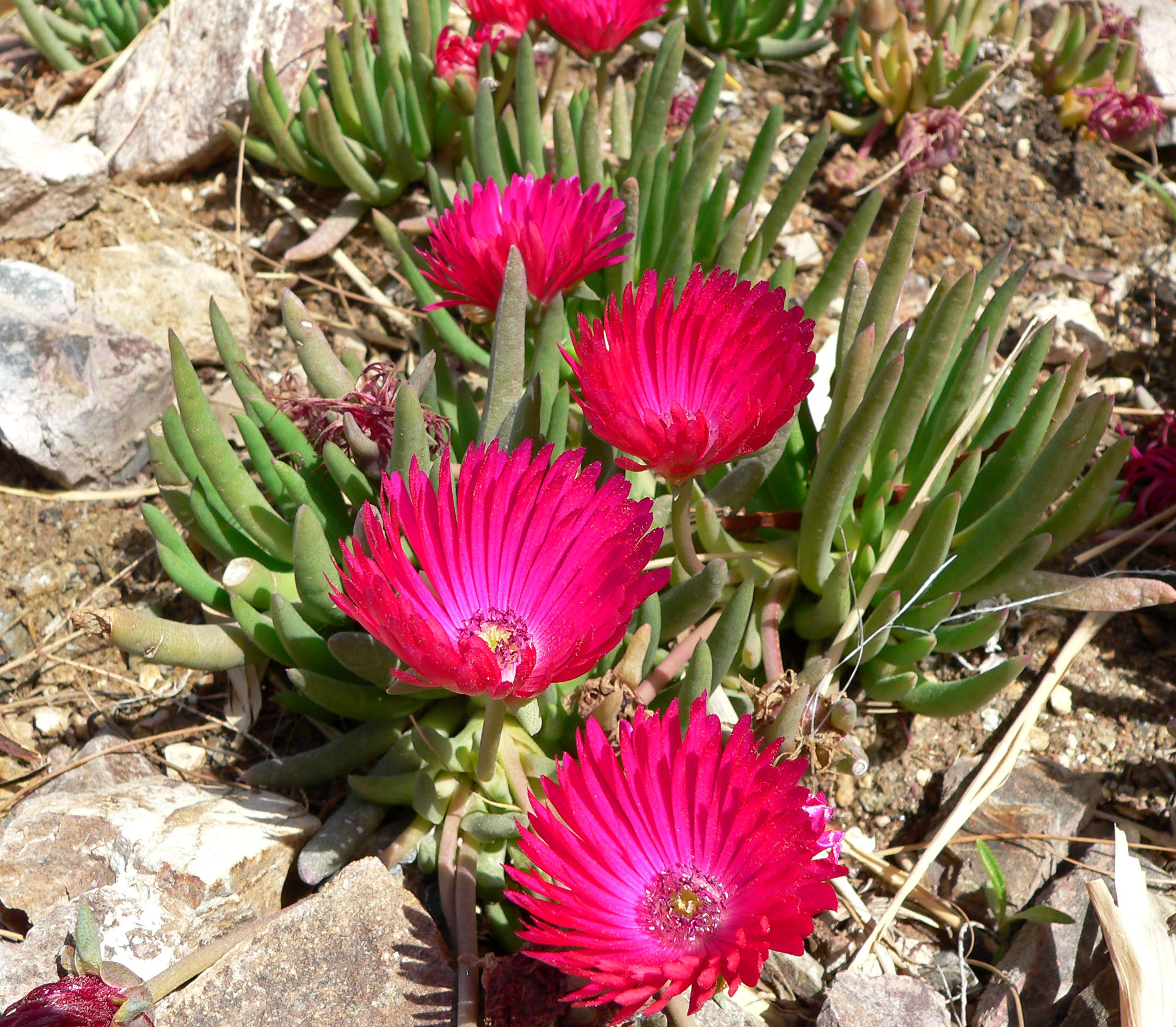 Cephalophyllum stayneri at the Springs Preserve garden, Las Vegas, Nevada